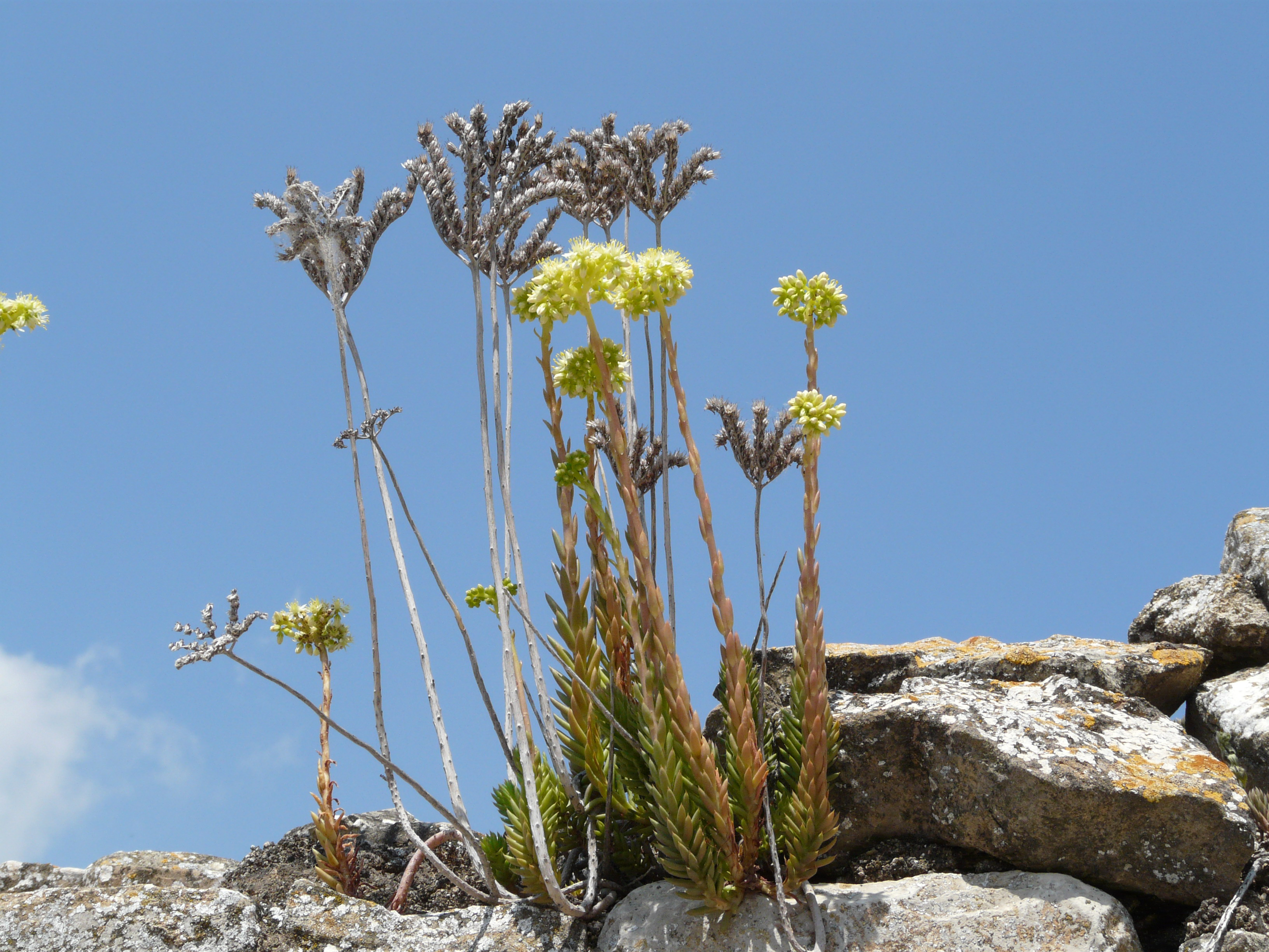 Sedum sediforme in Copons, Anoia, Catalonia.